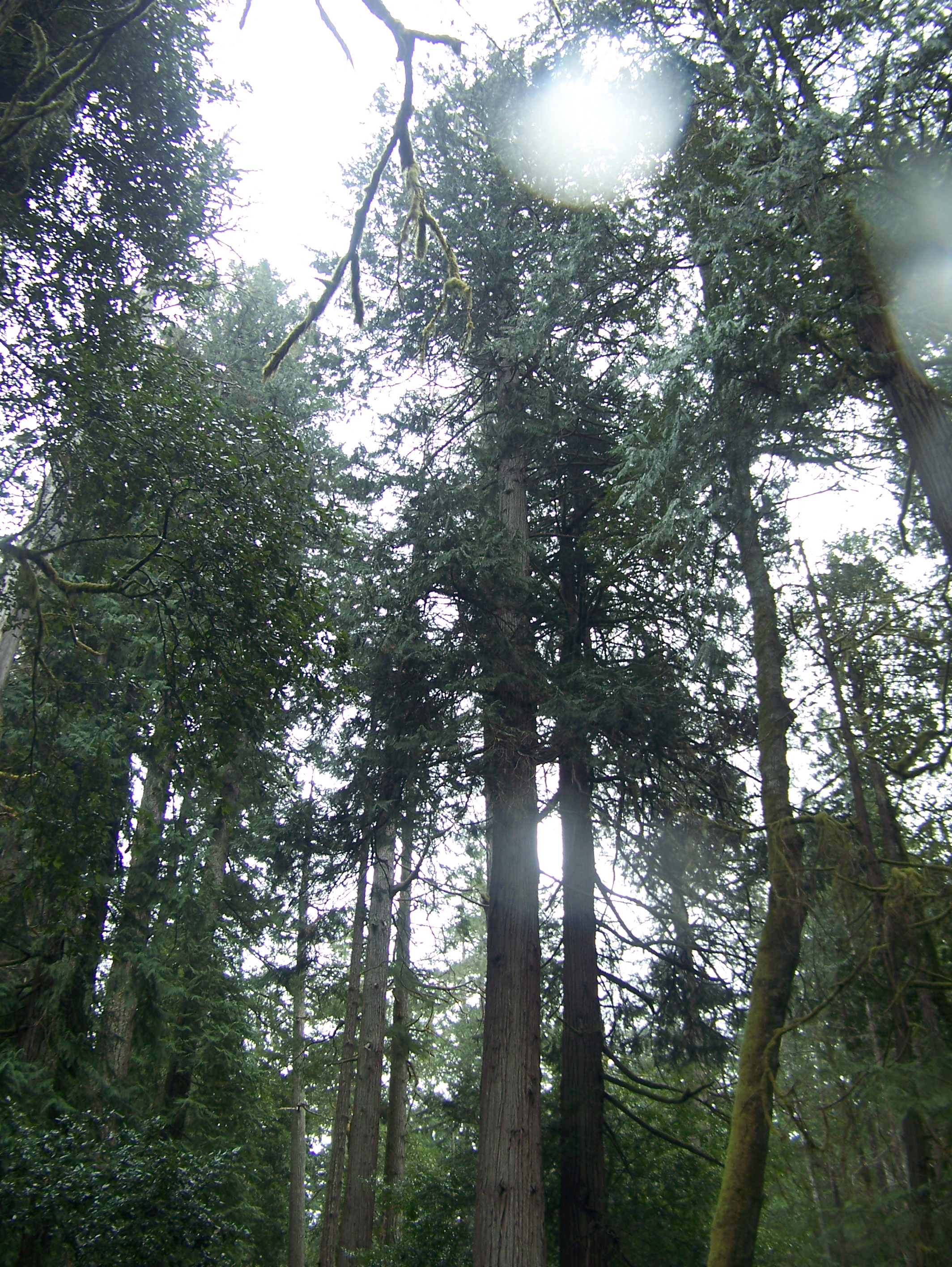 Lawson's Cypress Chamaecyparis lawsoniana, Francis Shrader Old Growth Trail, Siskiyou National Forest, Gold Beach, Oregon